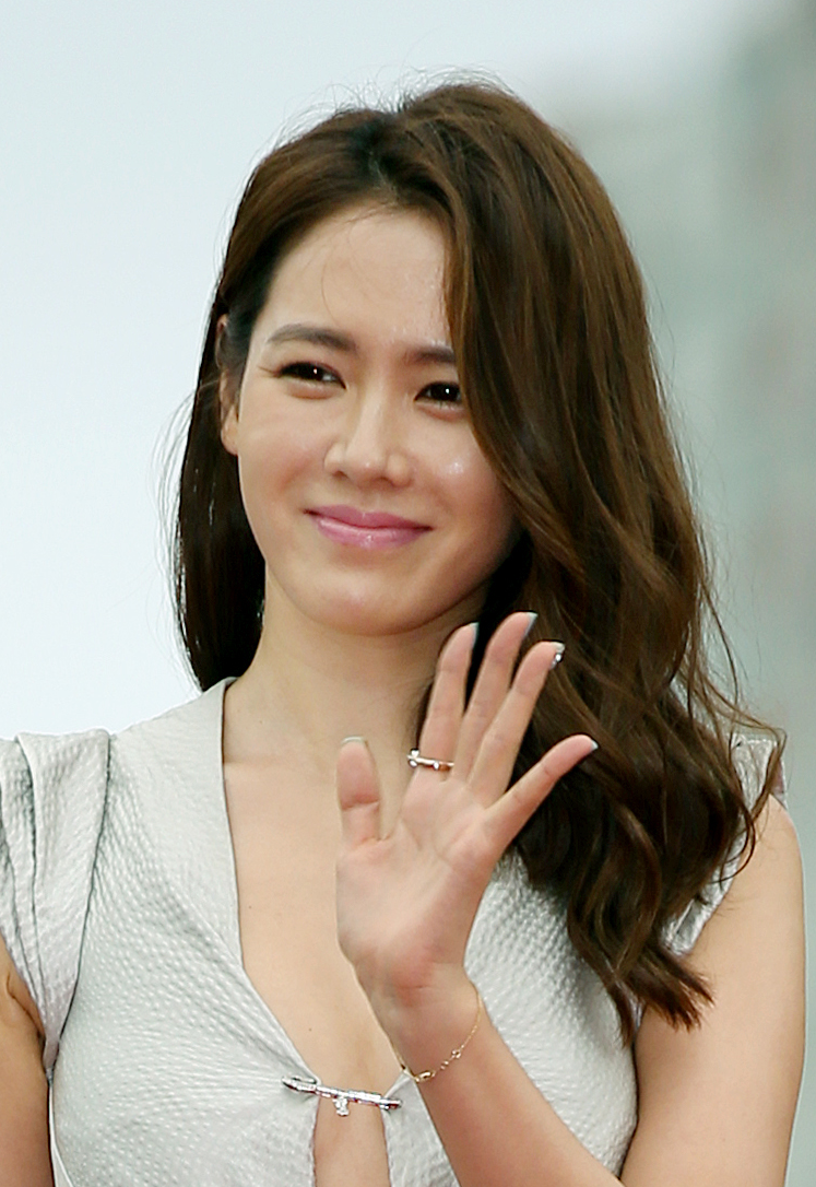 18th Puchon International Fantastic Film Festival (Pifan) Actress Son Ye-jin walks down the red carpet during the opening ceremony for the 18th Puchon International Fantastic Film Festival on July 17. They each received a Producers’ Choice Award. July 17, 2014 Bucheon, Gyeonggi-do